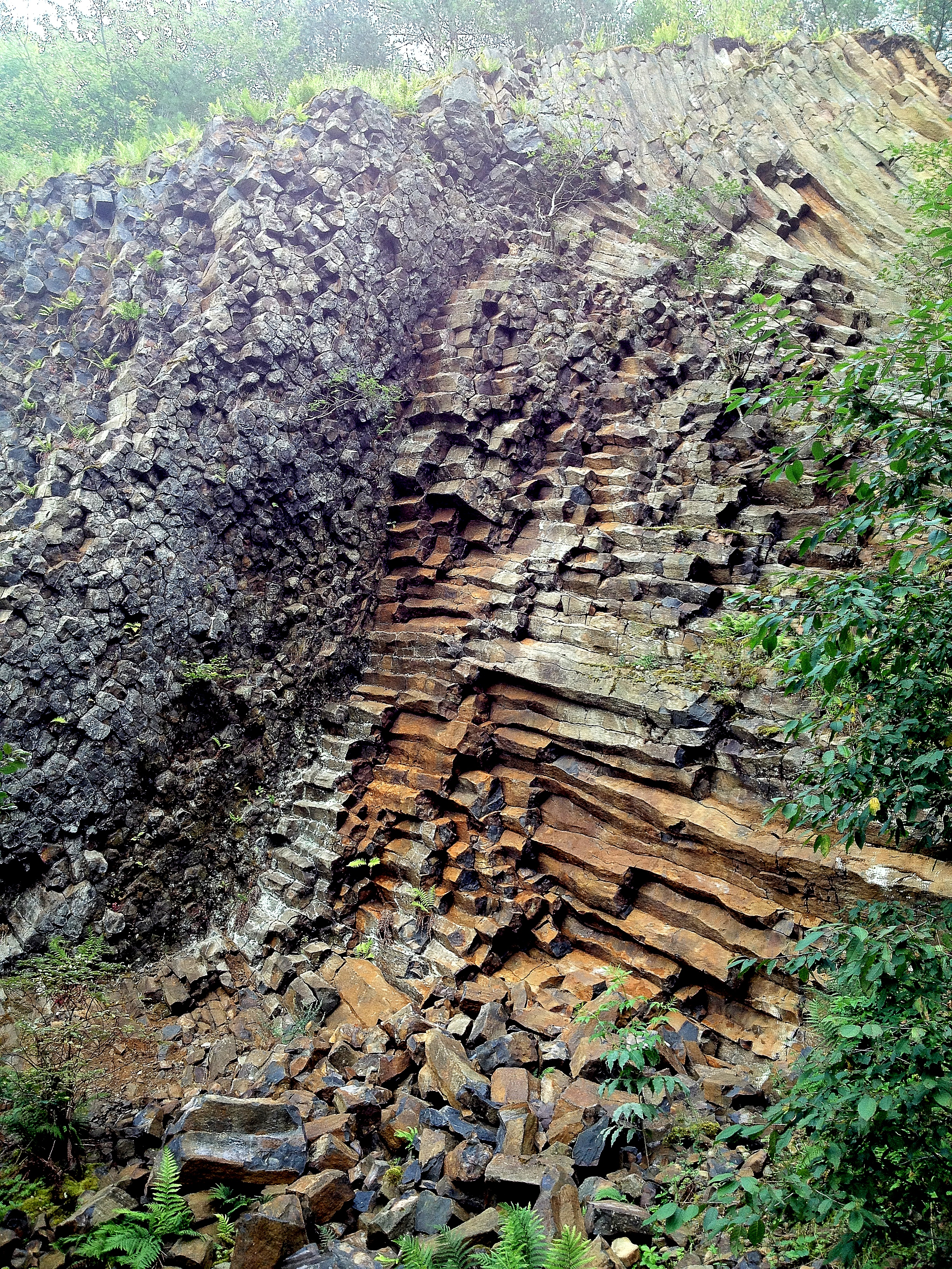 Horizontal and vertical basalt columns, Rhön, North Bavaria near Bad Brückenau, Germany (ancient quarry)